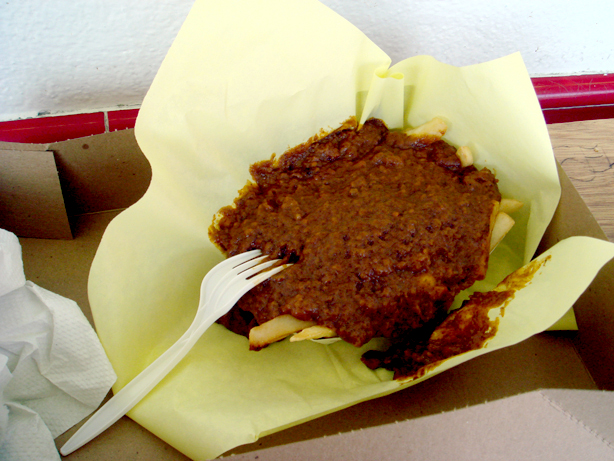 Chili Cheese Fries from the original Tommy's location, on Beverly & Rampart in Los Angeles, California.